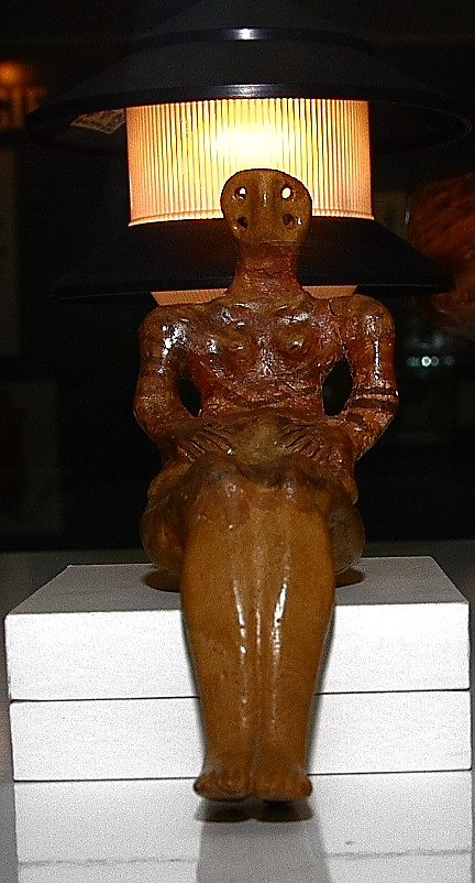 Ghelăiești Sanctuary 3800-3600 BC. Piatra Neamt Museum.